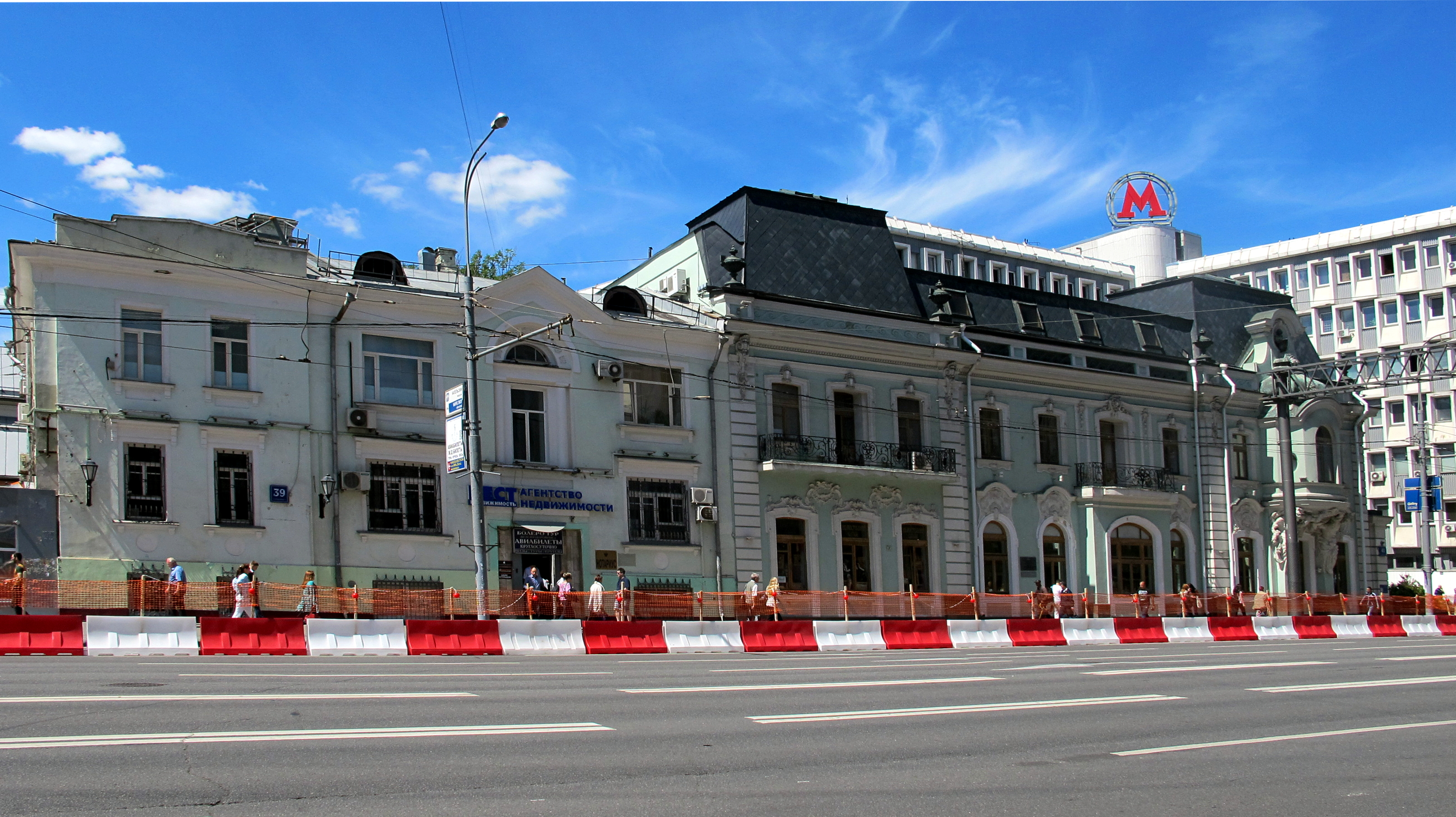 Prospekt Mira 39-41.